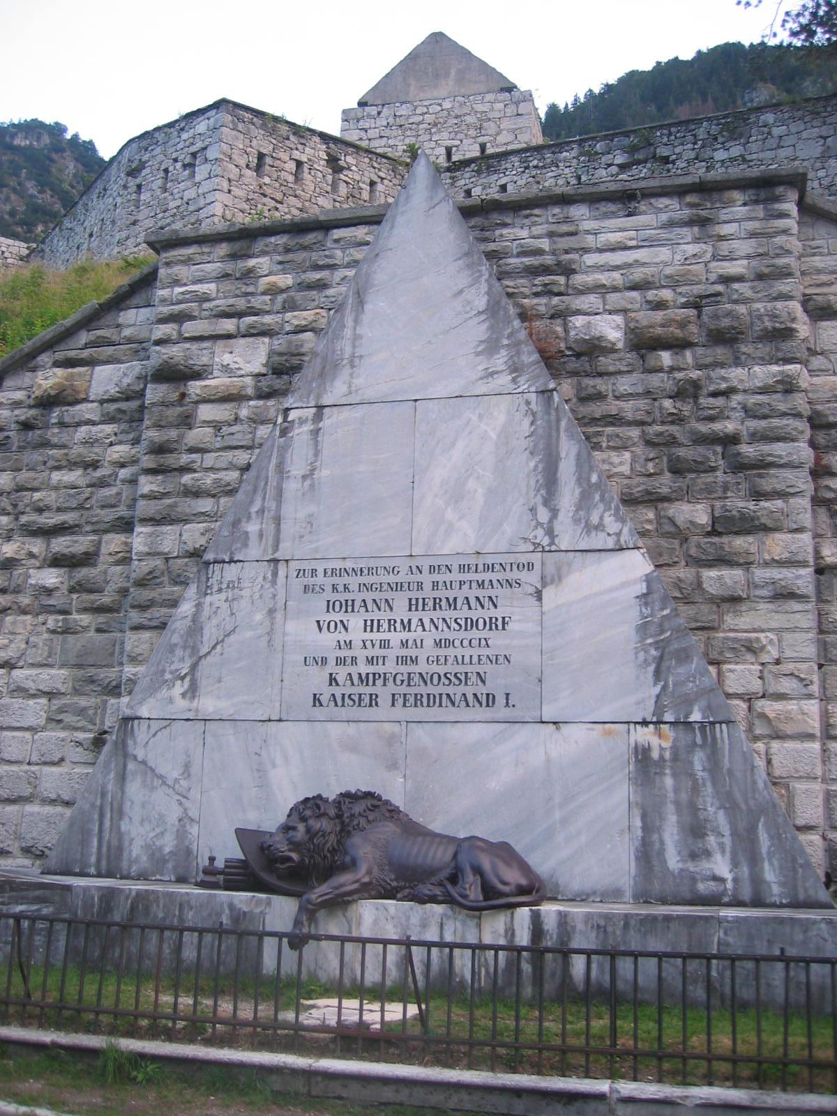 Fortress at Predil Pass, Slovenia photo:Ziga 06:43, 28 March 2007 (UTC)